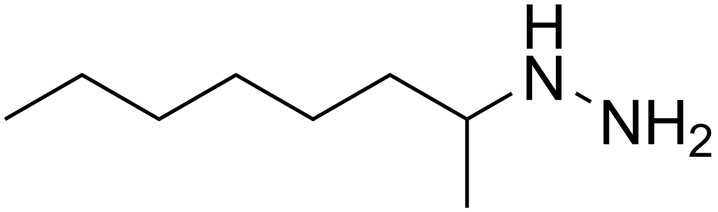 Chemical structure of octamoxin